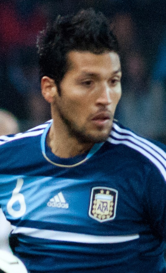 The making of this document was supported by Wikimedia CH. (Submit your project!) For all the files concerned, please see the category Supported by Wikimedia CH. Switzerland vs. Argentina, 29th February 2012